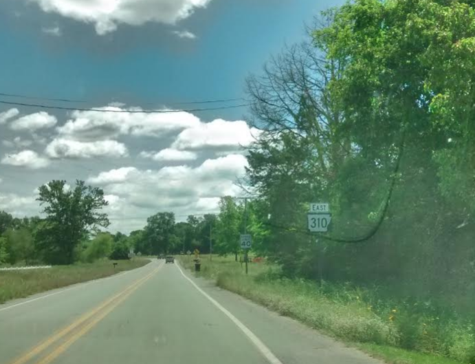 Highway 310 in Mount Vernon near its concurrency with Highway 36